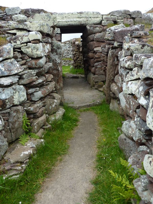 Carn Liath, a broch in Sutherland, Scotland